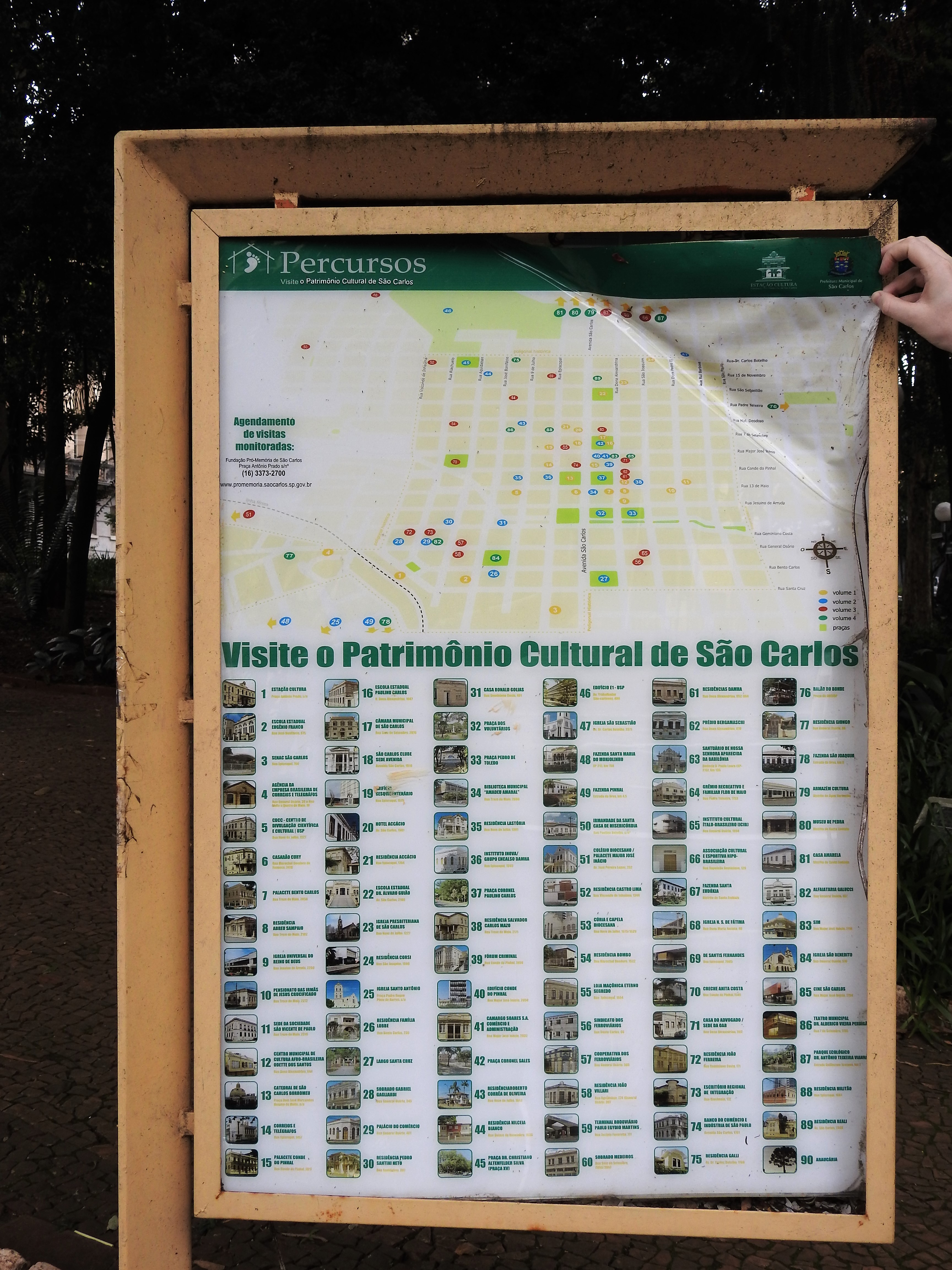 São Carlos is a city of 221,950 inhabitants (IBGE/2010) in the state of São Paulo, Brazil. It is located at 22°01′04″S 47°53′27″W, at about 231 km from the city of São Paulo.